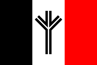 Algiz rune on flag of the organization National Alliance, USA. The organization exists since 1967.